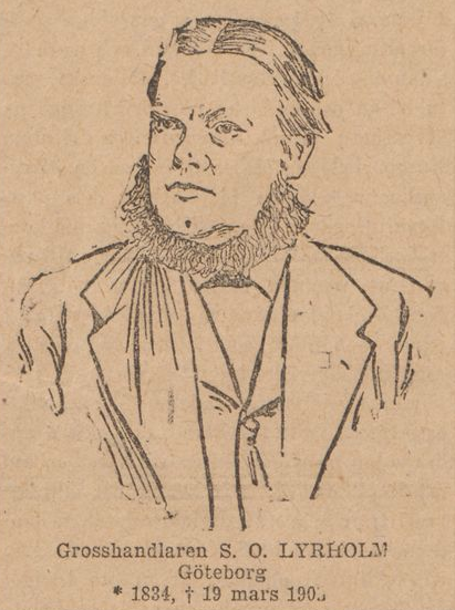 Obiturary engraving of the Swedish businessman Sten Otto Lyrholm (1834-1902), by an anonymous artist. Published in Svenska Dagbladet 1902-03-30 (84), p. 1.